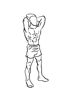 an exercise of triceps